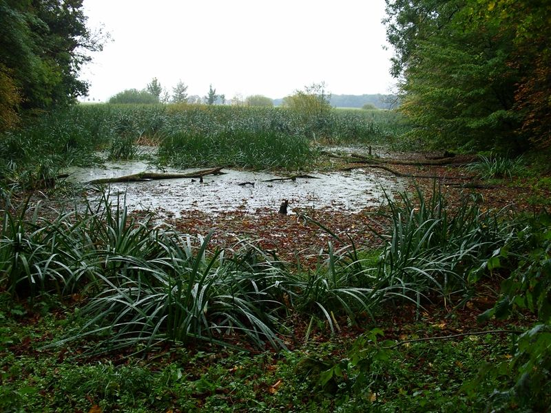 Silted lake at Burgwall Jatzke